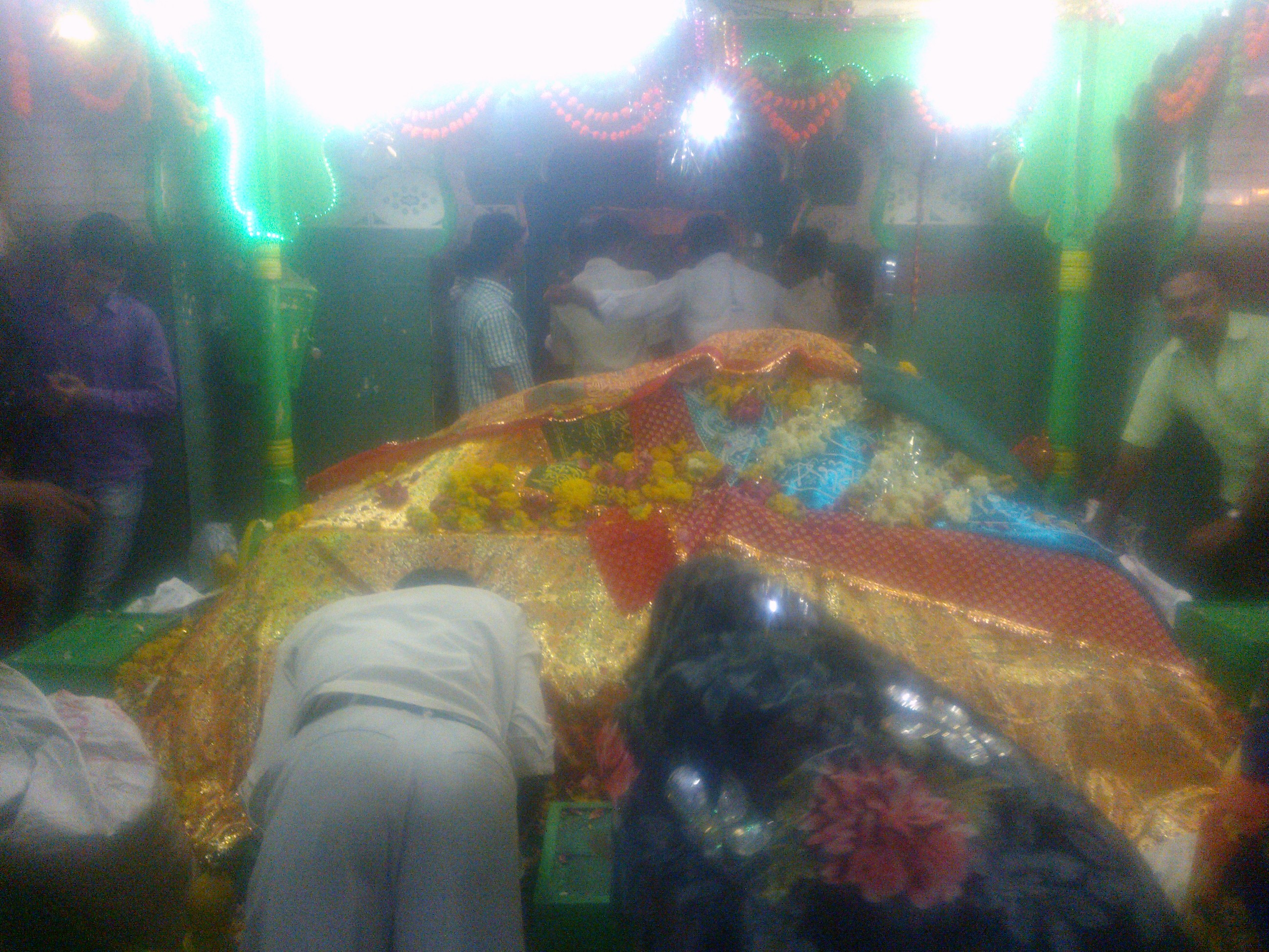 Shrine of Hazarat Shah Turabul Haq.